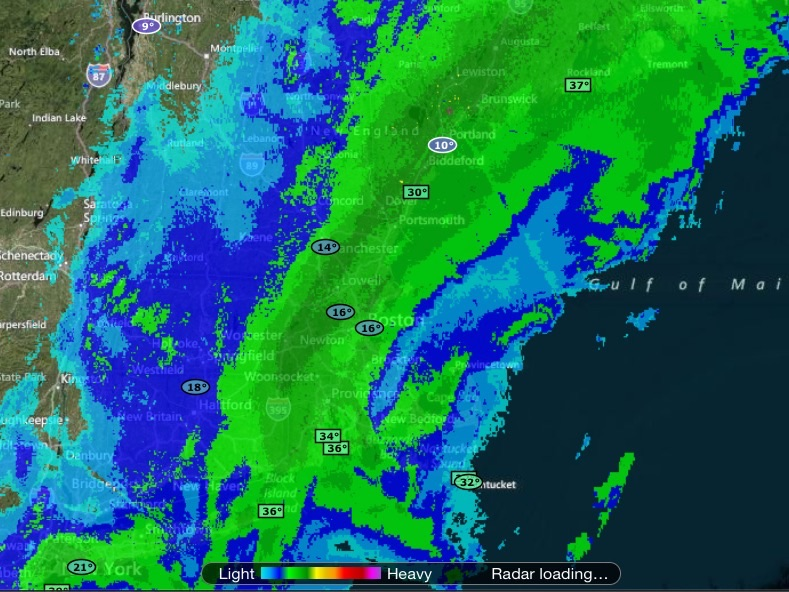 The heart of The system in the night